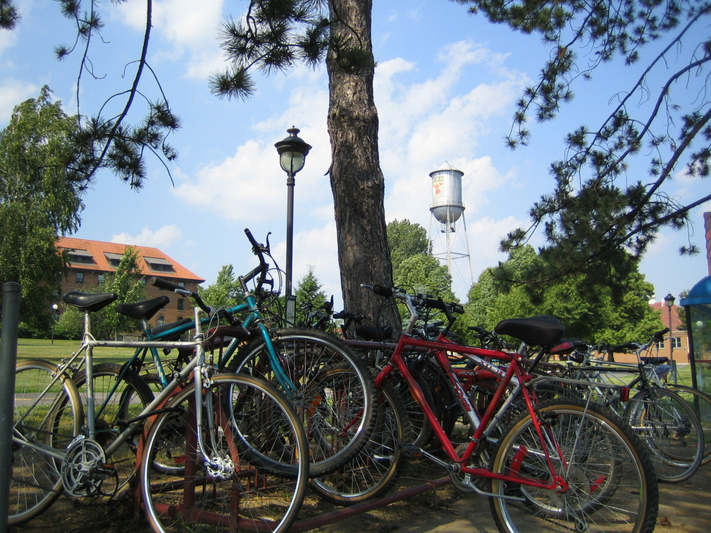 part of John Abbott College (Ste-Anne-de-Bellevue, Island of Montreal), view from the bus terminal